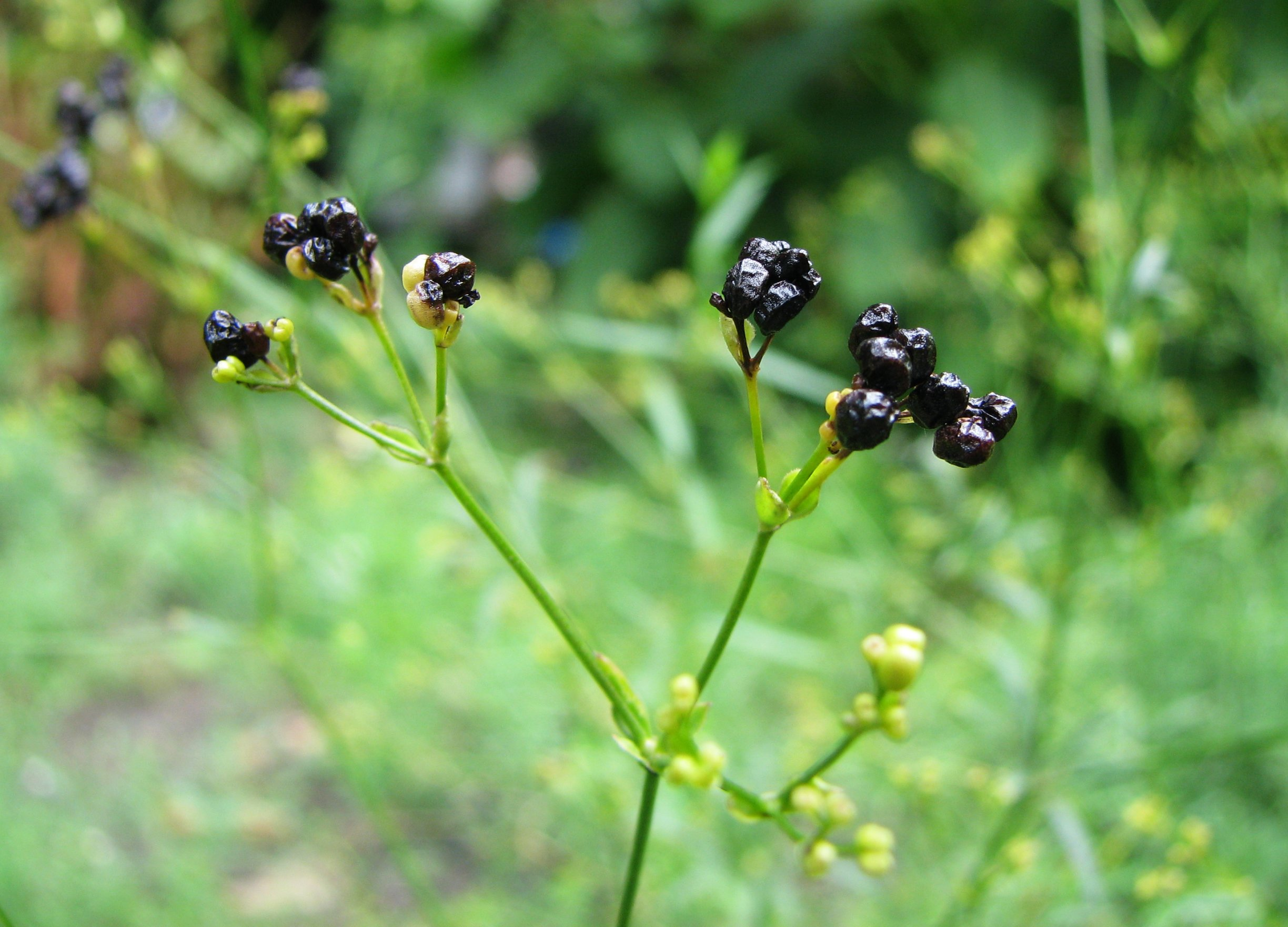 Asperula tinctoria fruits, plant cultivated in Wrocław University Botanical Garden, Poland.